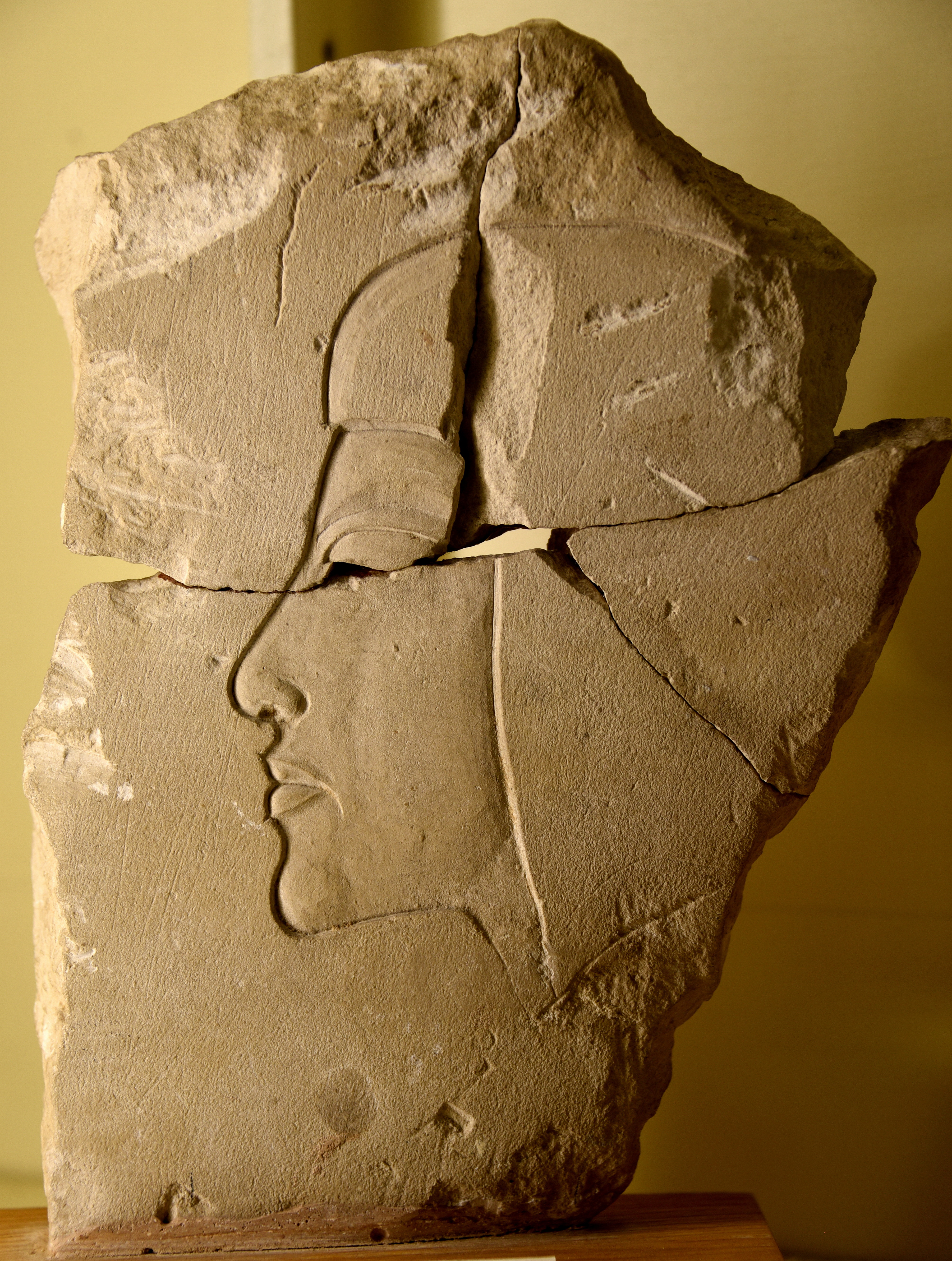 Limestone trial piece of a private person. There is a carved head of a princess on the reverse. The profile head of the person, facing left, was finally carved. Revered: roughly carved head of a royal princess. There are 2 nb-hieroglyphs, 2 eyes, and 3 and a half pairs of lips. Reign of Akhenaten. From Amarna, Egypt. Petrie Museum of Egyptian Archaeology, London. With thanks to the Petrie Museum of Egyptian Archaeology, UCL.